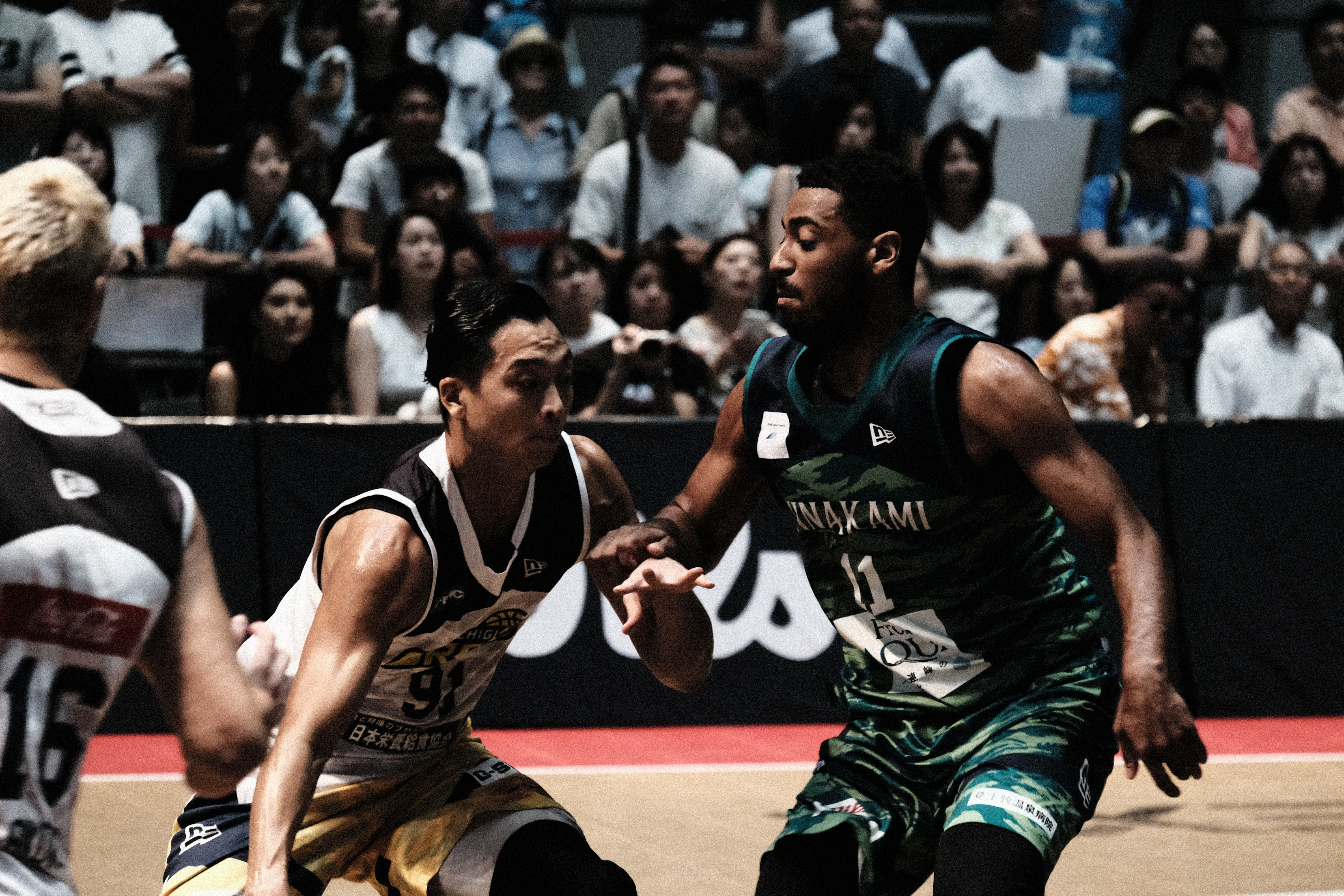 Tomoya Ochiai